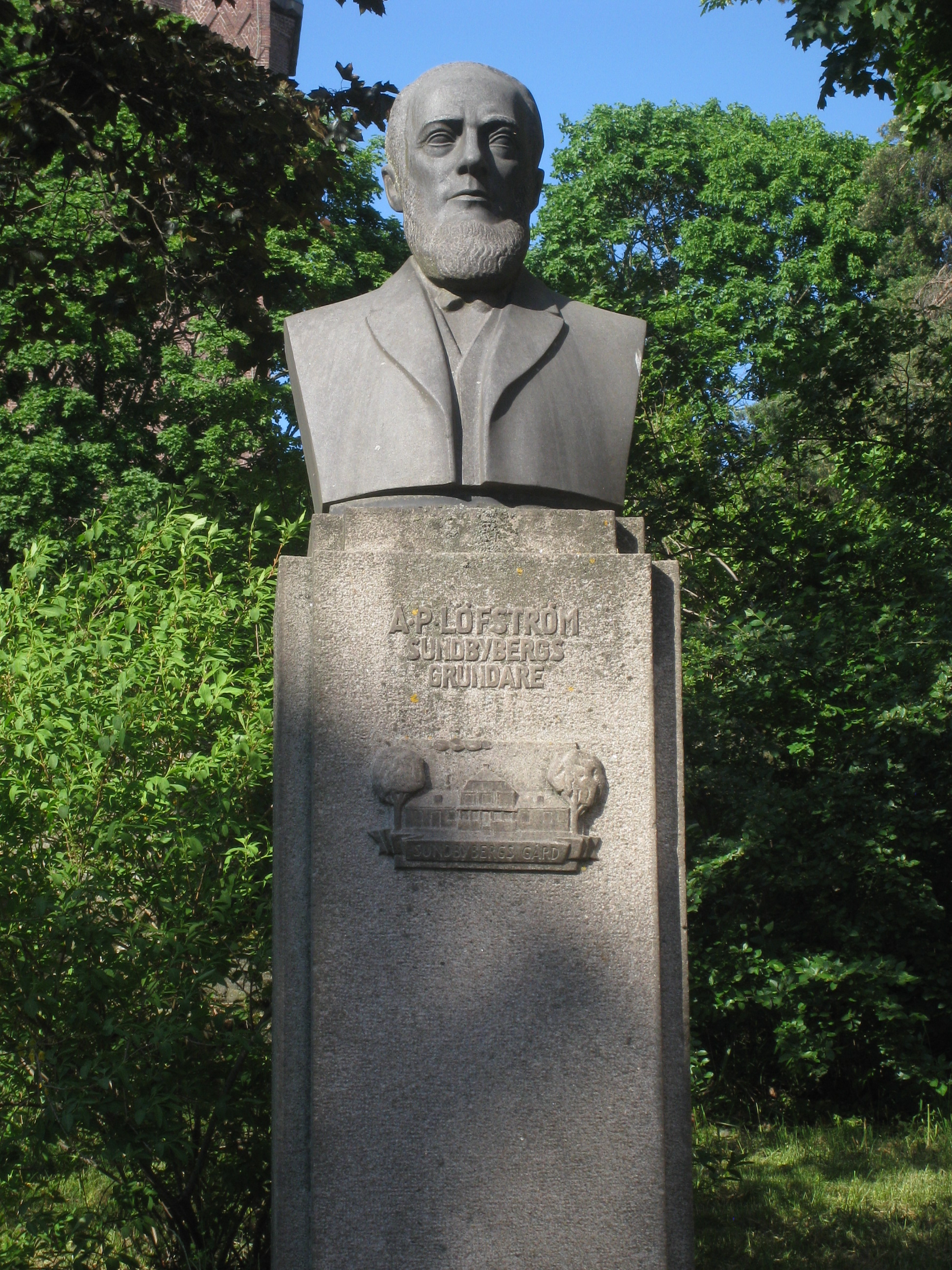 Anders Petter Löfström (1831-1909) was the founder of Sundbyberg. The burst of black granite, which is in Tornparken in Sundbyberg since 1946, was created in 1944 by sculptor Carl Fagerberg (1878-1948). The bust of A.P. Löfström stands at Vegagatan, the founder looks out over the Esplanade.